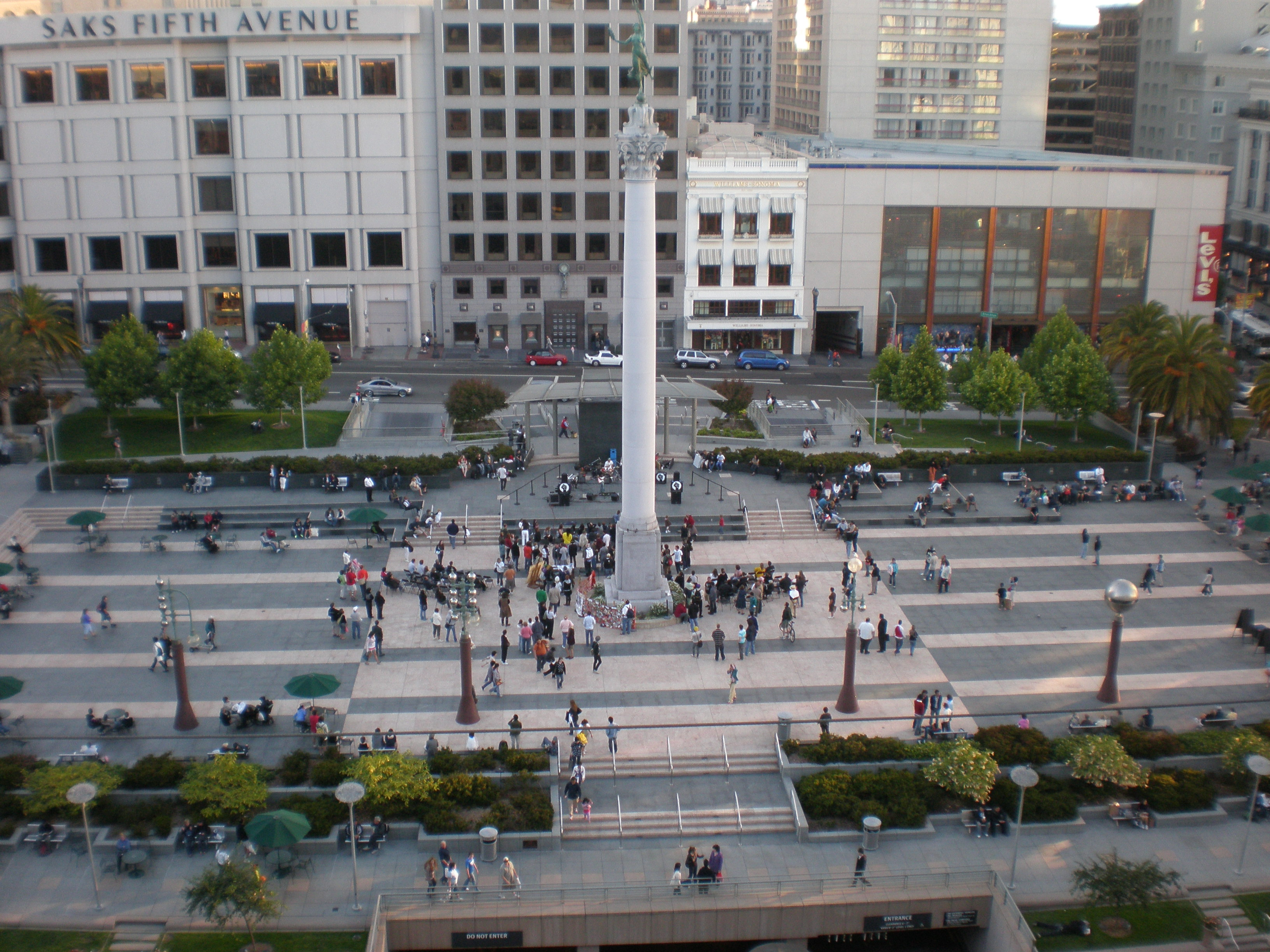 Union Square as seen from the Sky Terrace of the Cheesecake Factory at Macy's Union Square in San Francisco.